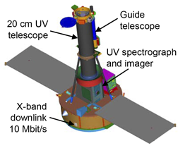 IRIS instruments